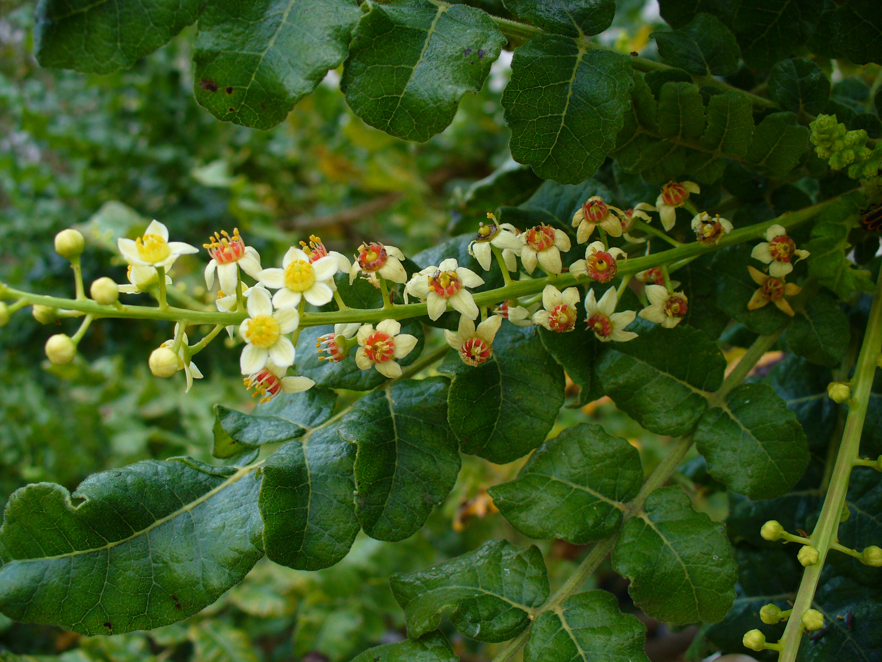 Florida International University campus, Miami, Florida, USA